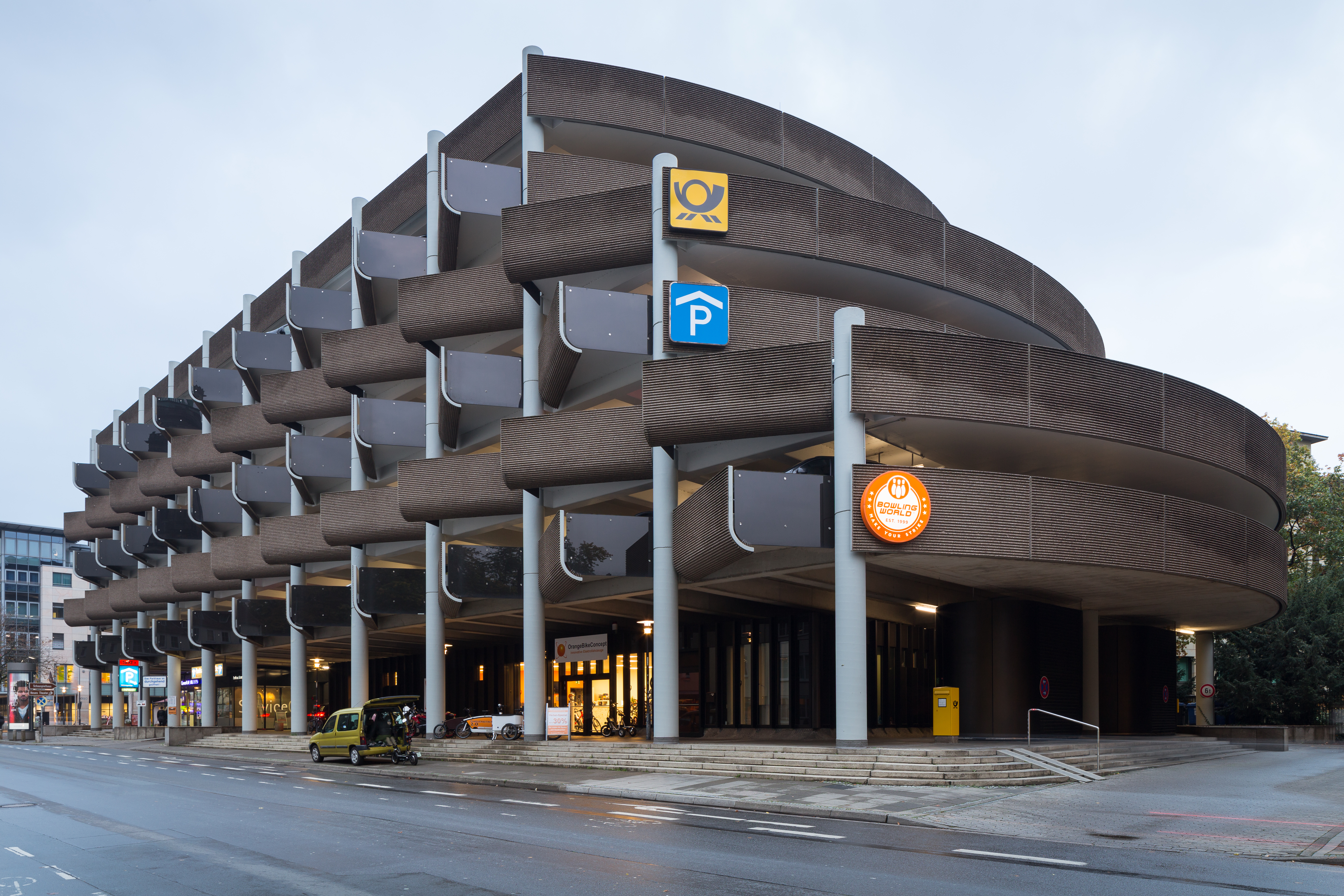 Car park building located at Osterstrasse in Mitte quarter of Hannover, Germany.